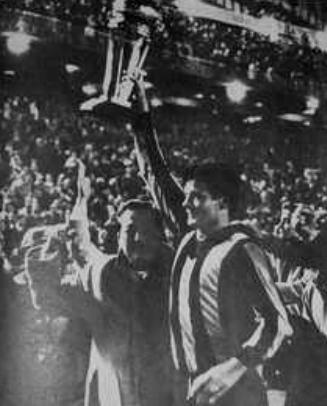 Players of Peñarol holding the Copa Intercontinental trophy.